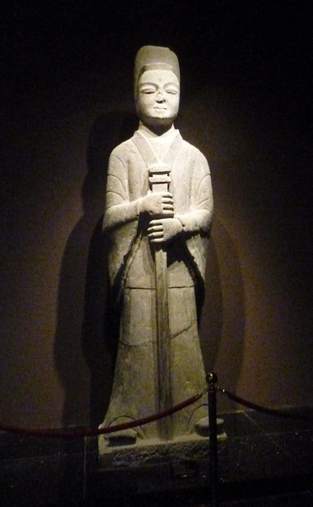 I took this photo in the Luoyang Museum on a visit in 2011.